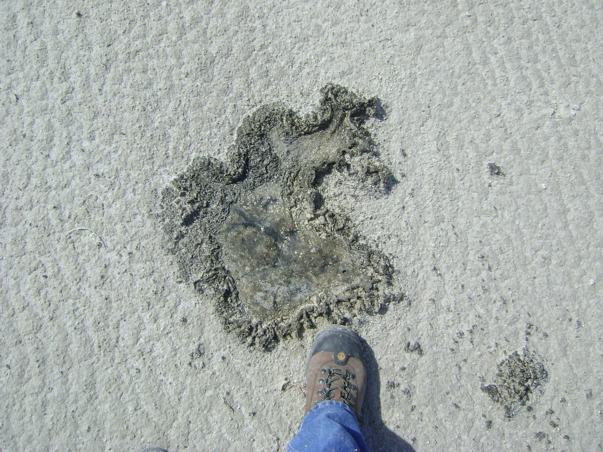 This shows a tar seep at Rozel Point on the Great Salt Lake, in Utah, USA. When the water level is low, as in 2010, you can walk on the salt flats (mud flats) to the seeps, which are a few tenths of a mile from the shore.